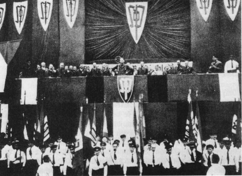 K. H. Frank on the Sudeten German Party 24th Congress April 1938